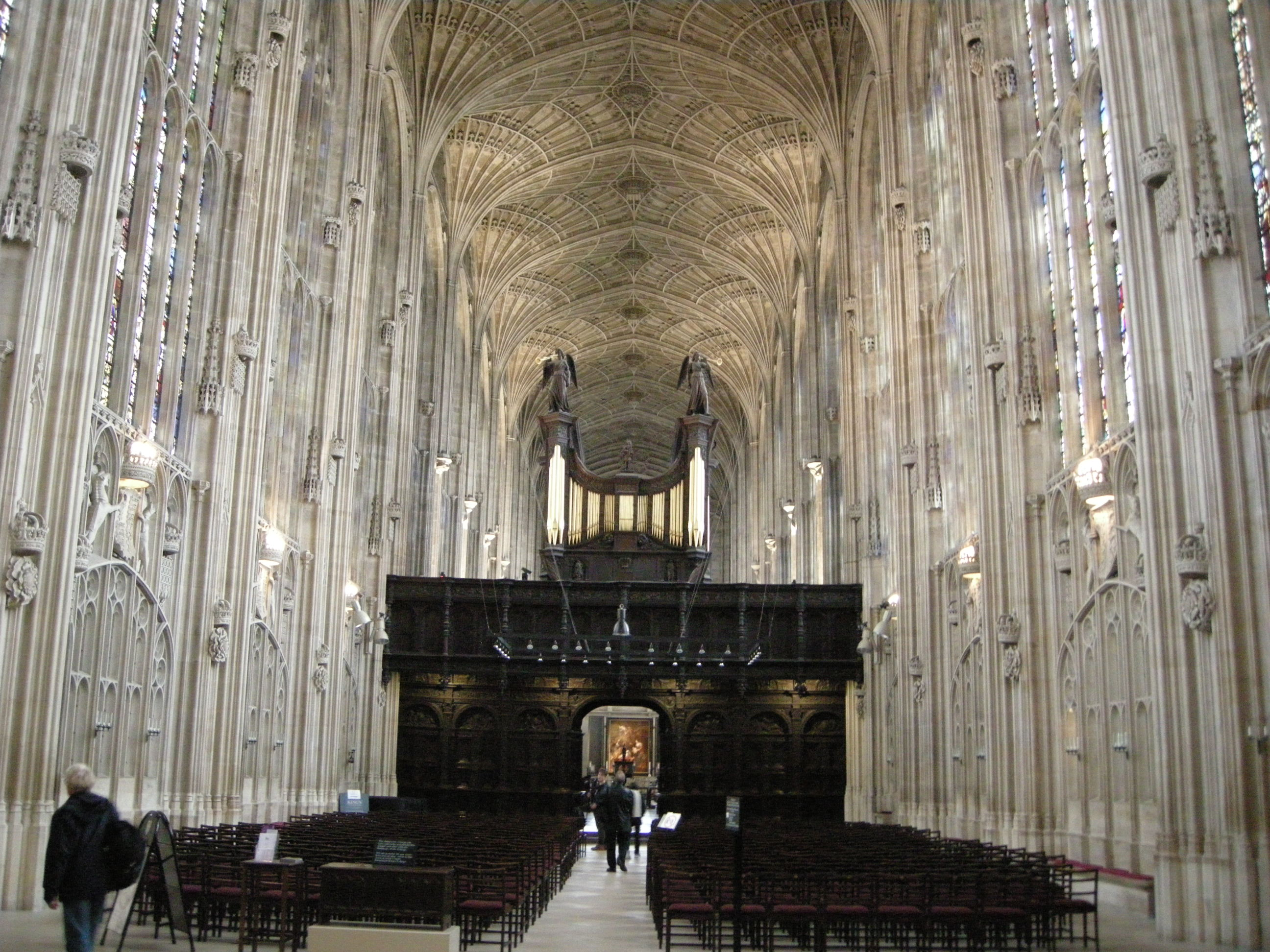 King's College Chapel, Cambridge